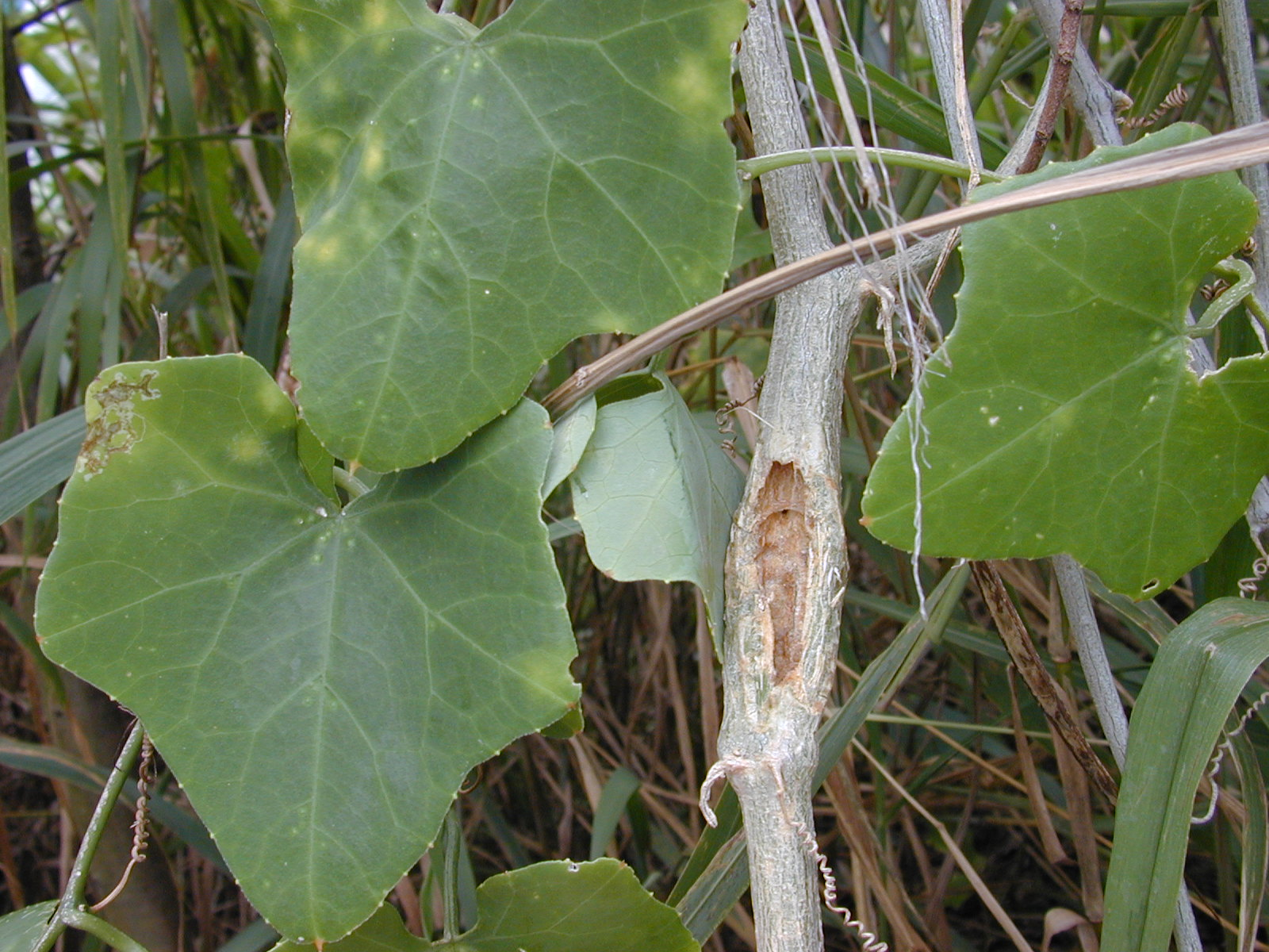 Coccinia grandis (biocontrol Melittia oedipus larva stem boring damage). Location: Maui, Kapalua